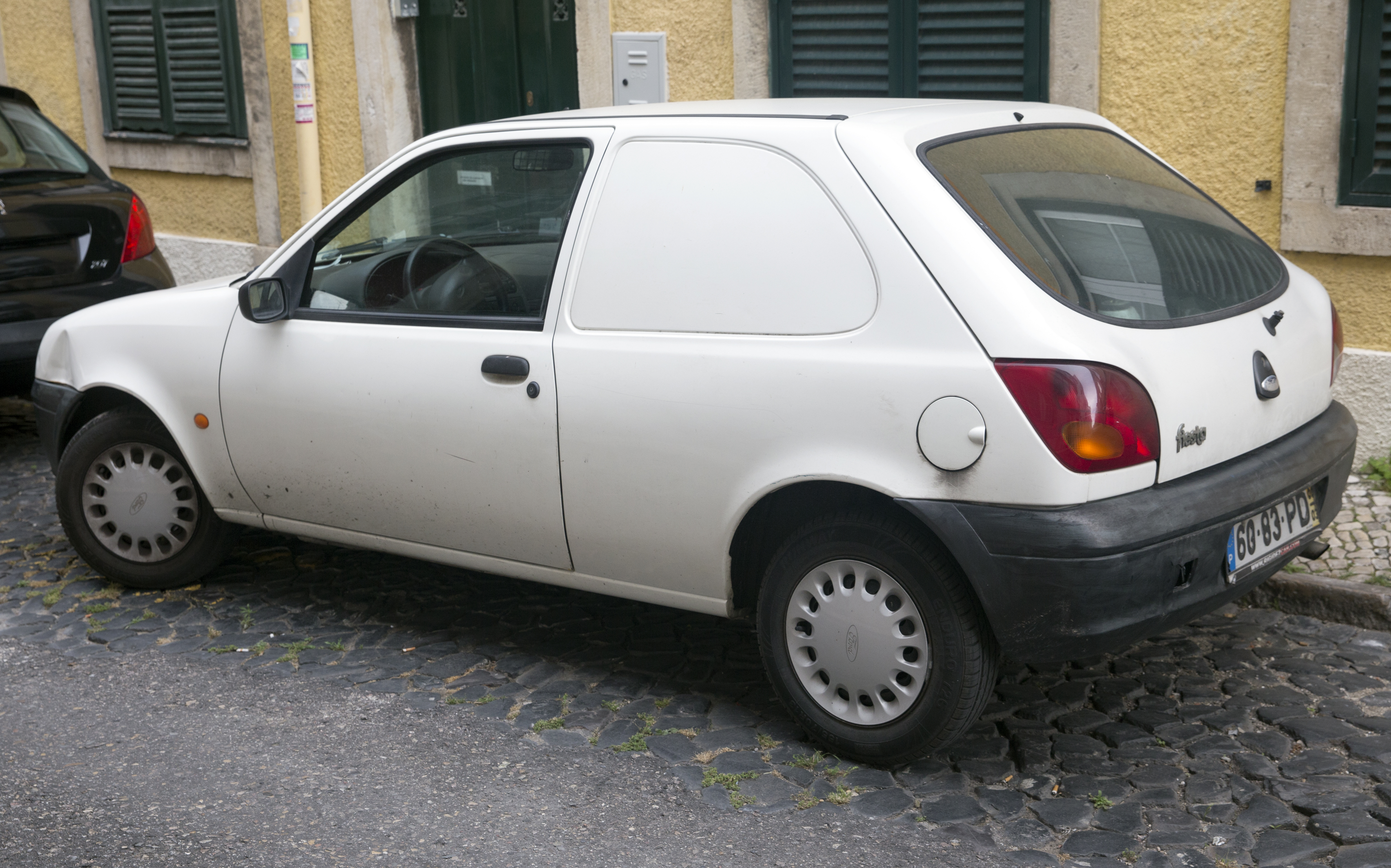 A 2000 Ford Fiesta Van seen in Lisbon, Portugal.